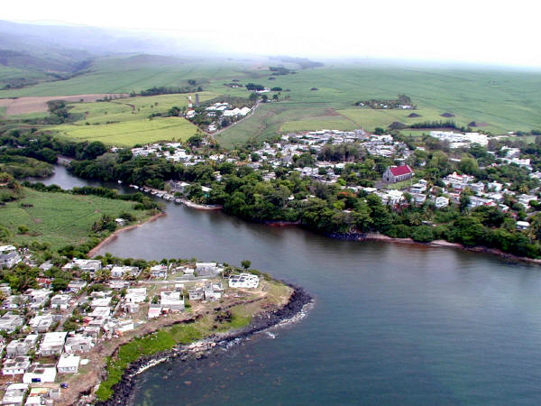 Arial View of the ancient Port of Souillac